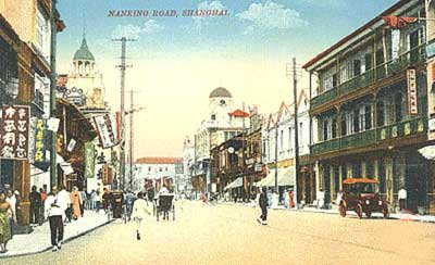 Nanjing Road, Shanghai in the 1920s